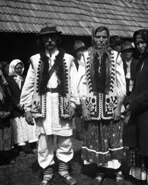 Boykos. Subethnic group of Western-Ukrainian highlanders from the Carpathian mountains.